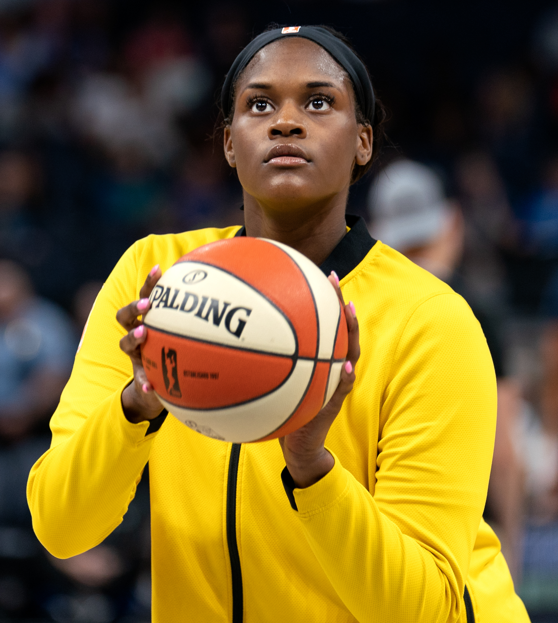 Los Angeles Sparks player Kalani Brown warming up in a game against the Minnesota Lynx